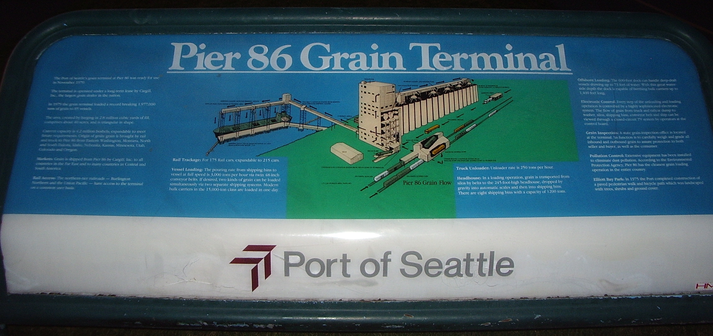 Informational sign describing Port of Seattle Grain Terminal